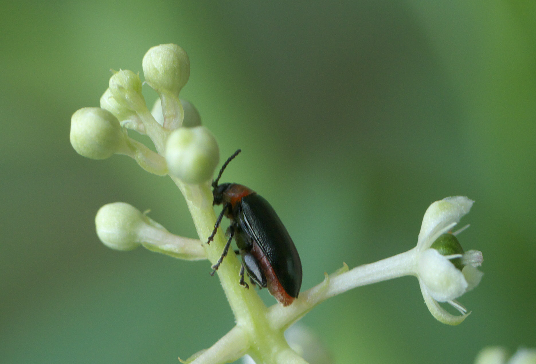 Disonycha xanthomelas, Spinach Flea Beetle, ID Confidence: 98